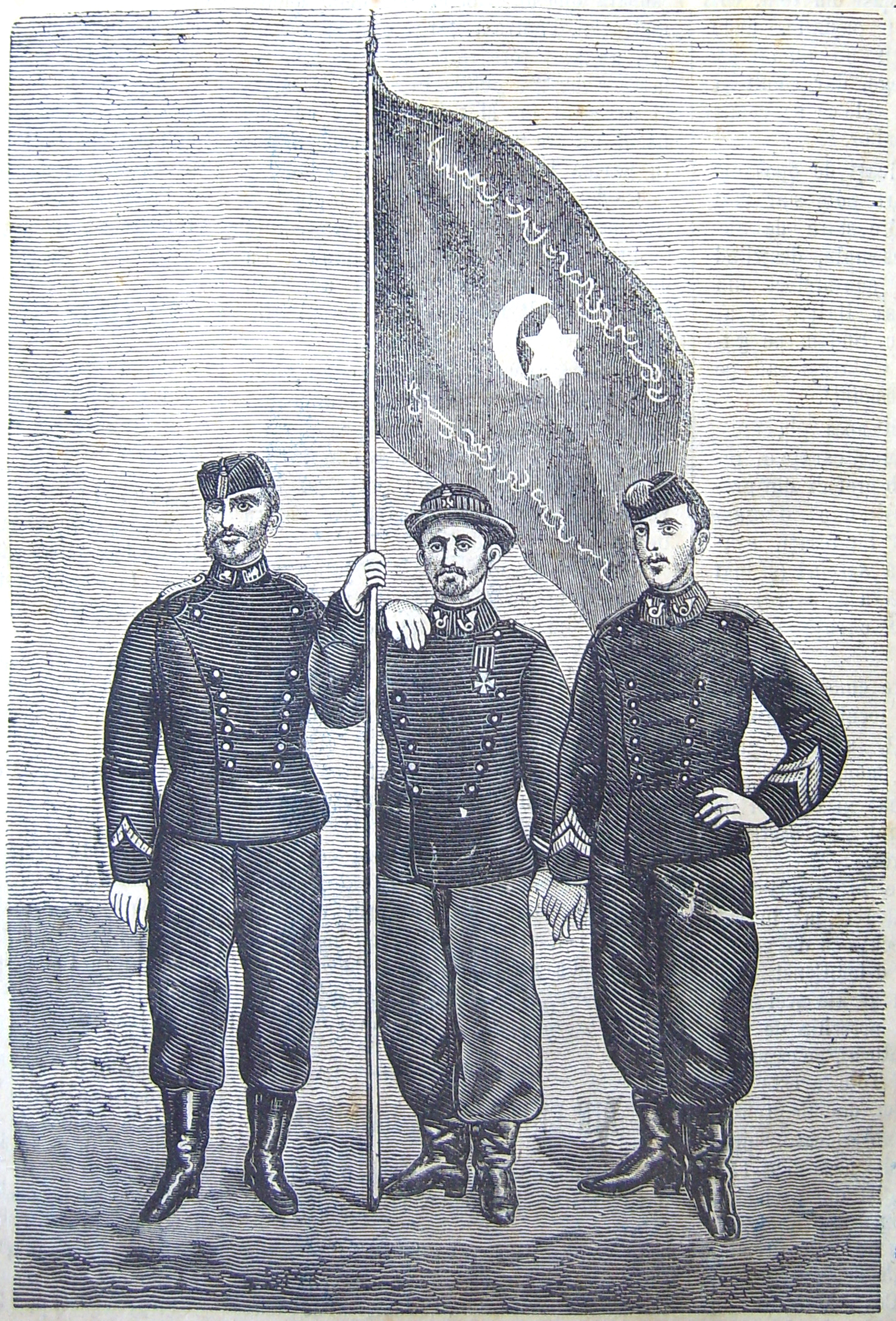 Three Romanian soldiers of the 1877-1878 Romanian War of Independence, with an Ottoman flag captured during the Siege of Plevna (20 July – 10 December 1877). Print from the front page of newspaper Resboiul, September 18th, 1877. The accompanying article (in Romanian): Iacă cei trei voinici din Batalionul al 2-lea de vânători, dintre cei care s-au distins în luptele de la Plevna. Cel din mijloc este soldatul Grigore Ion, din districtul Prahova, care a luat stindardul, împuscându-l pe Turcul care fugea cu dânsul; cel din stânga este sergentul, iar cel din dreapta este caporalul care au sărit în ajutorul soldatului Grigore Ion. În ziua de 3 Aug. batalionul al 2-lea de vânători a fost cel dintâi, care s-a apropiat de întăririle turceşti, înaitând ca tiraliori. Îndată după vânători urmau şi celelalte trupe de linie şi dorobanţii cu scări şi alte unelte pentru a se putea urca pe redutele îndesate cu hordele sălbatice ale lui Osman Paşa, care trăgeau mereu cu puşti şi tunuri contra bravilor noştri soldaţi. După cea mai crâncenă rezistenţă, trupele turceşti a trebuit să se retragă, lăsând posiţia lor întărită în mâinile Românilor. Pe când Turcii se retrăgeau, s-a întâmplat incidentul luărei stindardului. Iacă cum narează însuşi curagiosul nostrul vânător, Grigore Ion, luarea acelui glorios trofeu: “Eram înainte. Glonţele ploau ca piatra. Turcii erau la trei sute de paşi, se gătiau de retragere. Eram ‘naintea celor alţi, voiam să ucid un Turc cu baioneta. De o dată, văd un alt turc spătos ‘naintea mea, fugind cu un steag. Îl ochesc, el cade; mă arunc pe el, când voia să descarce revolverul; îi înfig baioneta în pept şi trag steagul. Turcul muria, dar îl ţinea strâns. Mă silesc să ‘i’l smulg. Atunci doi turci se aruncară asupră’mi. Mă pun în apărare; din fericire, sergentul şi caporalul meu îmi vin în ajutor. Culc la pământ un Turc, ei culcă la pământ pe celălalt, şi eu am smuls steagul.”